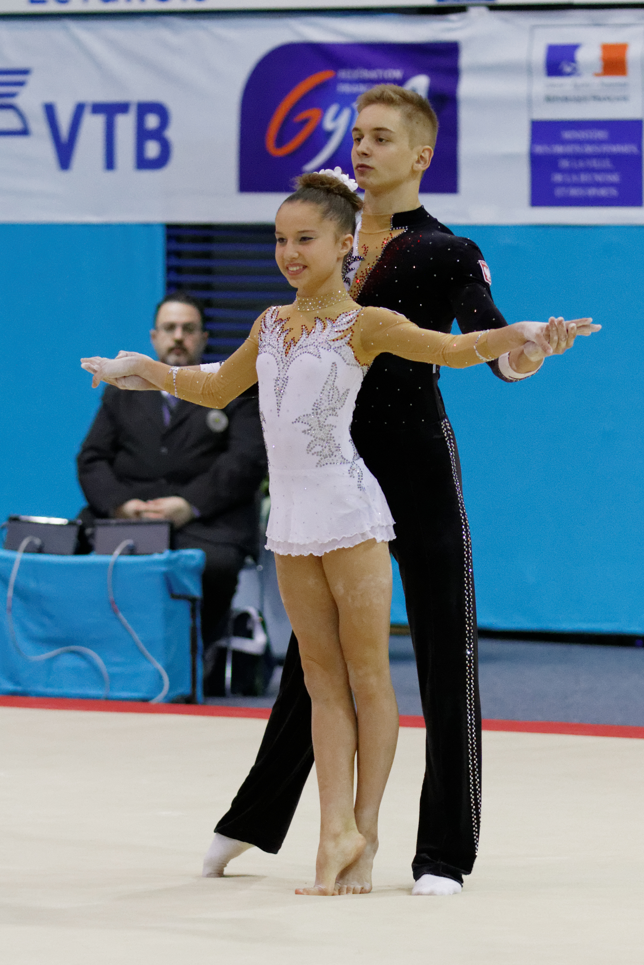 2014 Acrobatic Gymnastics World Championships, 10th-12 July, Levallois-Perret, France. Qualifications: mixed pair. Poland.